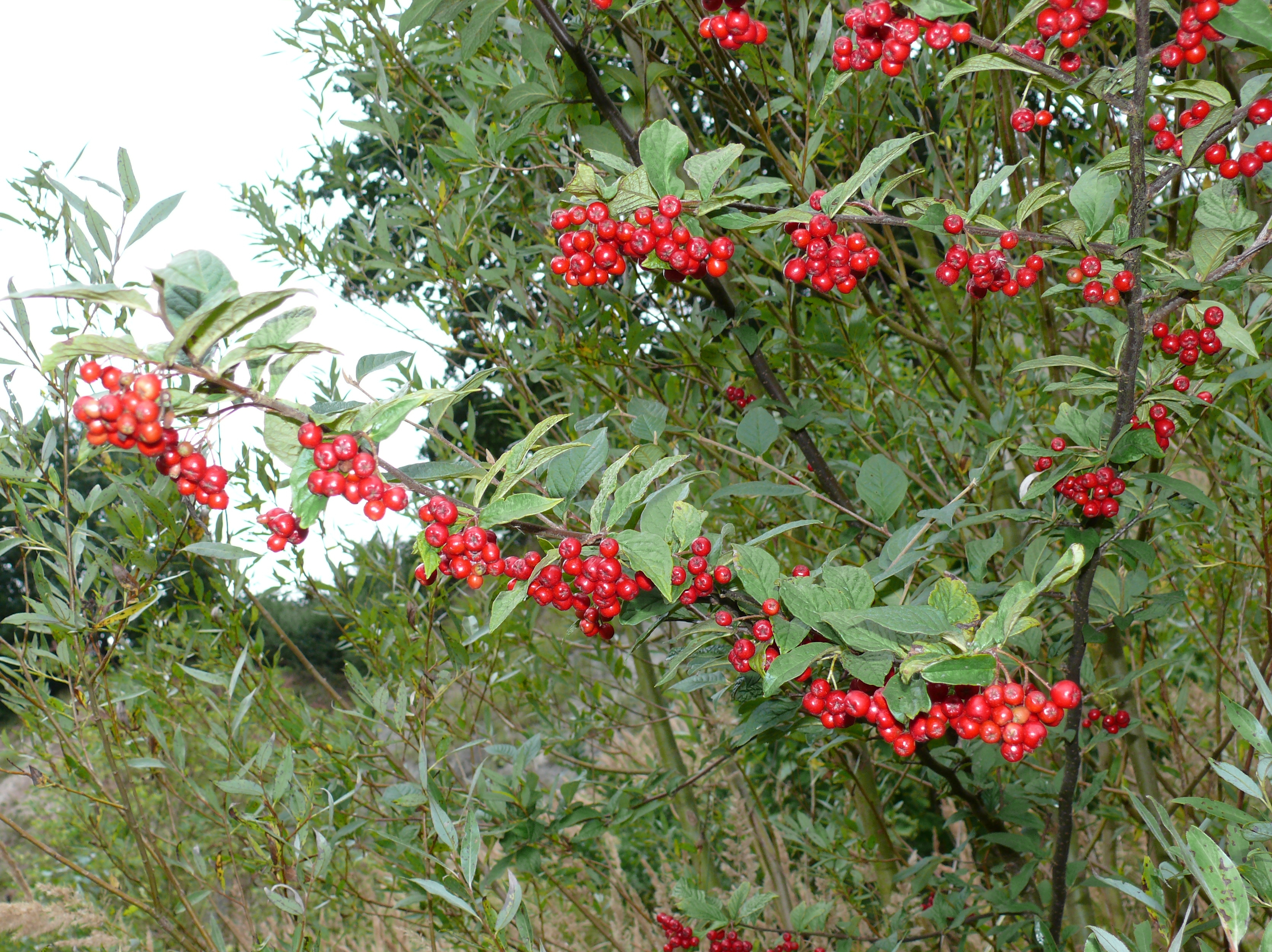 Cotoneaster bullatus, neophytic